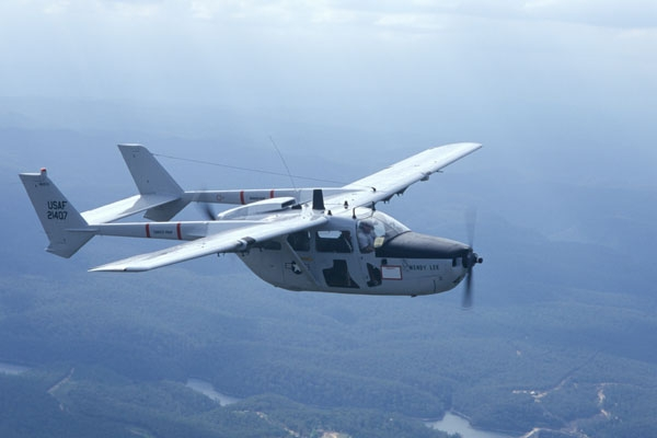 A U.S. Air Force Cessna O-2A-CE Super Skymaster (s/n 67-21407) in flight. This aircraft was manufactured in 1967 and flown to Vietnam in August of the same year. It was based at Pleiku and served in until April 1971. It was finally retired from the USAF to MASDC as HV0128 in January 1980. After being stored for 14 years, the aircraft was restored and flew as a civil registered aircraft in the USA since 1994. In 2000, it was bought by an Australian and donated to the Temora Aviation Museum in Temora, New South Wales (Australia), in December 2000.